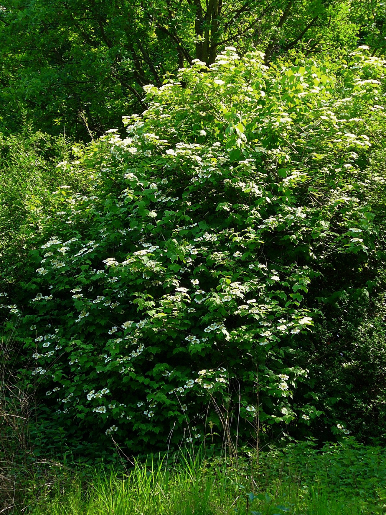 Viburnum opulus, Adoxaceae, Guelder Rose, Water Elder, European Cranberrybush, Cramp Bark, Snowball Tree, habitus. Karlsruhe, Germany.